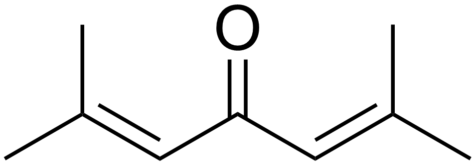 chemical structure of phorone